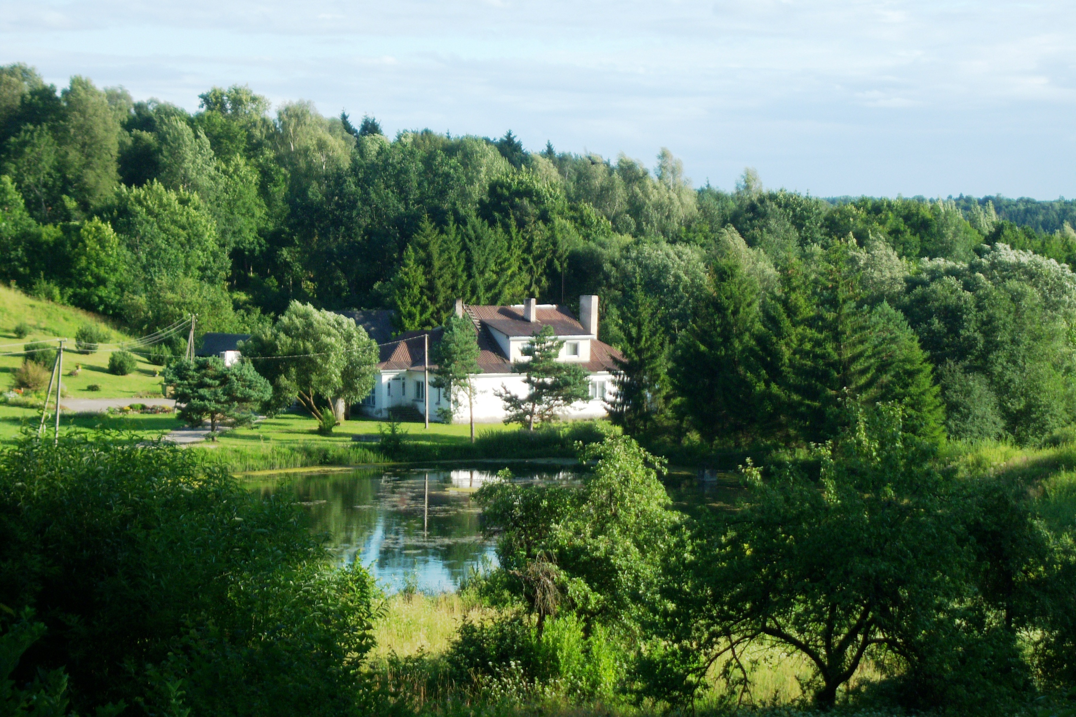 Gėluva, Šaltinių Street, Raseiniai district, Lithuania